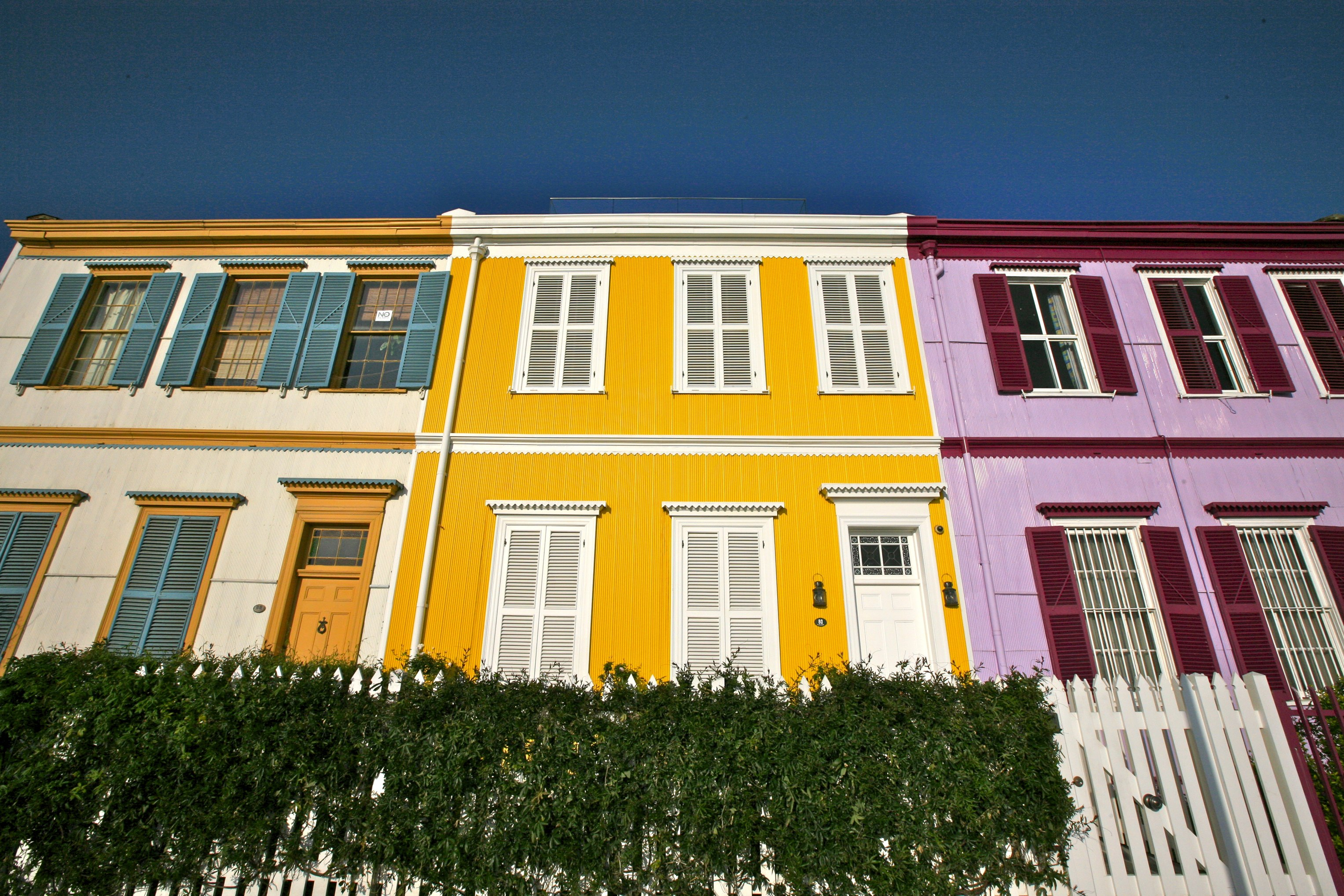 Coloured Fronts